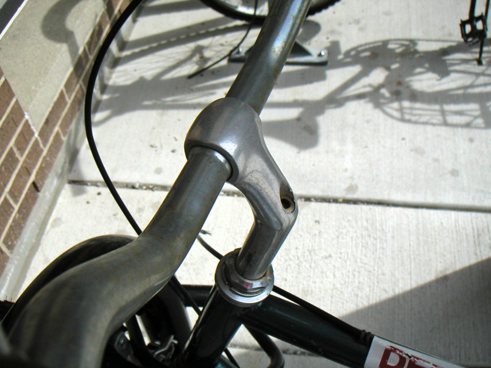 Taken by Andrew Dressel